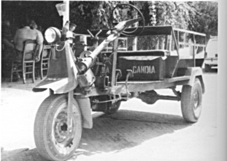 A characteristic photograph of a Candia vehicle, taken in Crete in 1980.